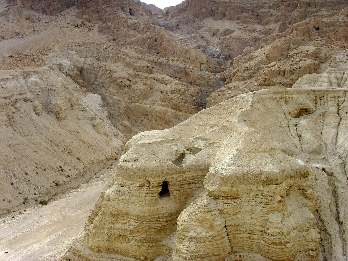 jerusalem